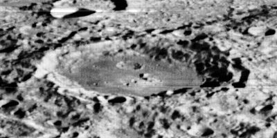 Oblique view of Hopmann crater, on the far side of the moon, facing roughly south.